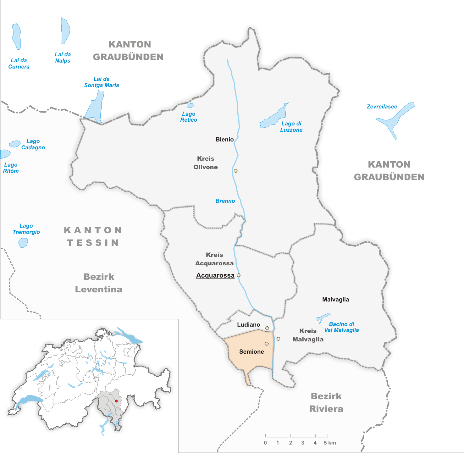 Municipality Semione